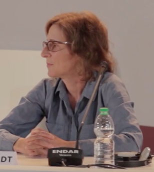 Kelly Reichardt at panel for Night Moves